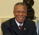 Prime Minister Tillman Thomas of Grenda at the White House. (cropped)